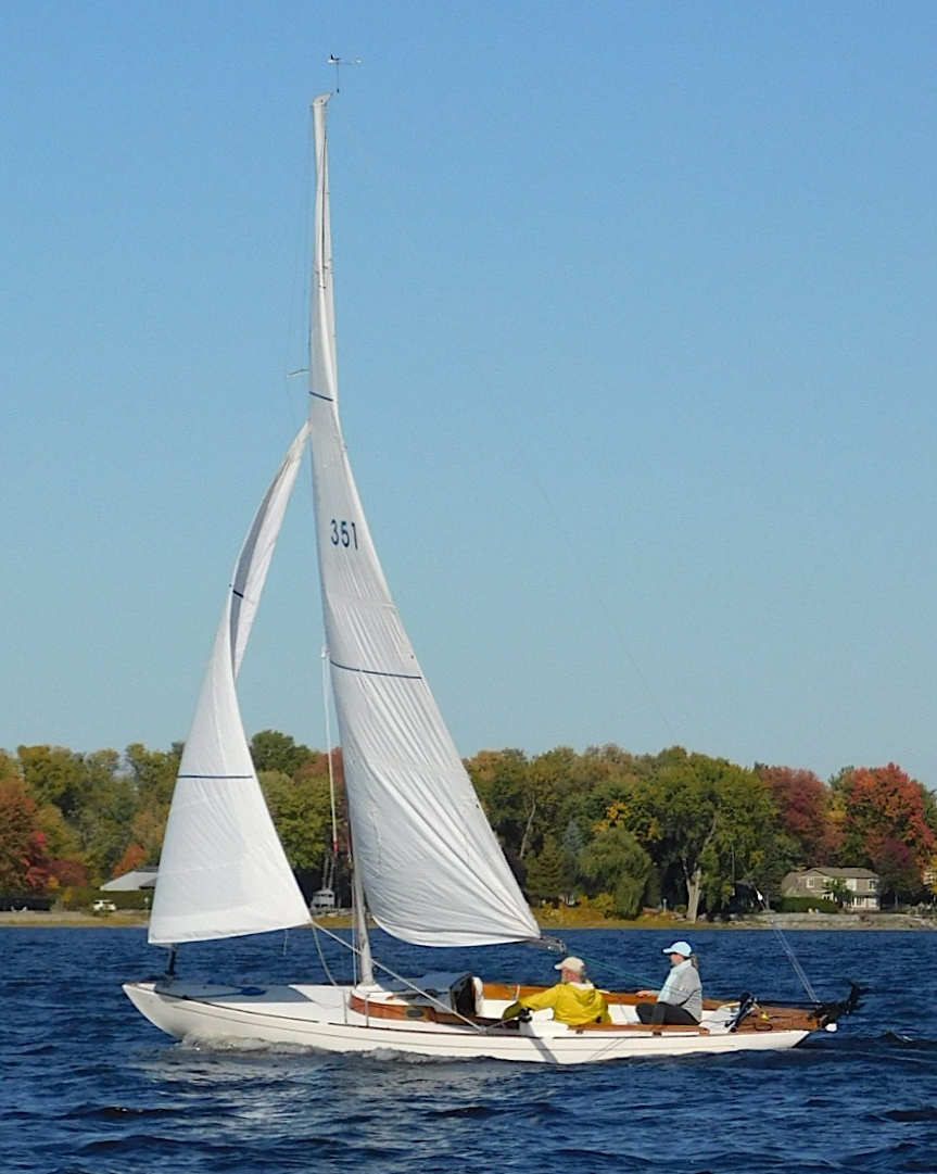 A William Roué Bluenose one design sailboat.